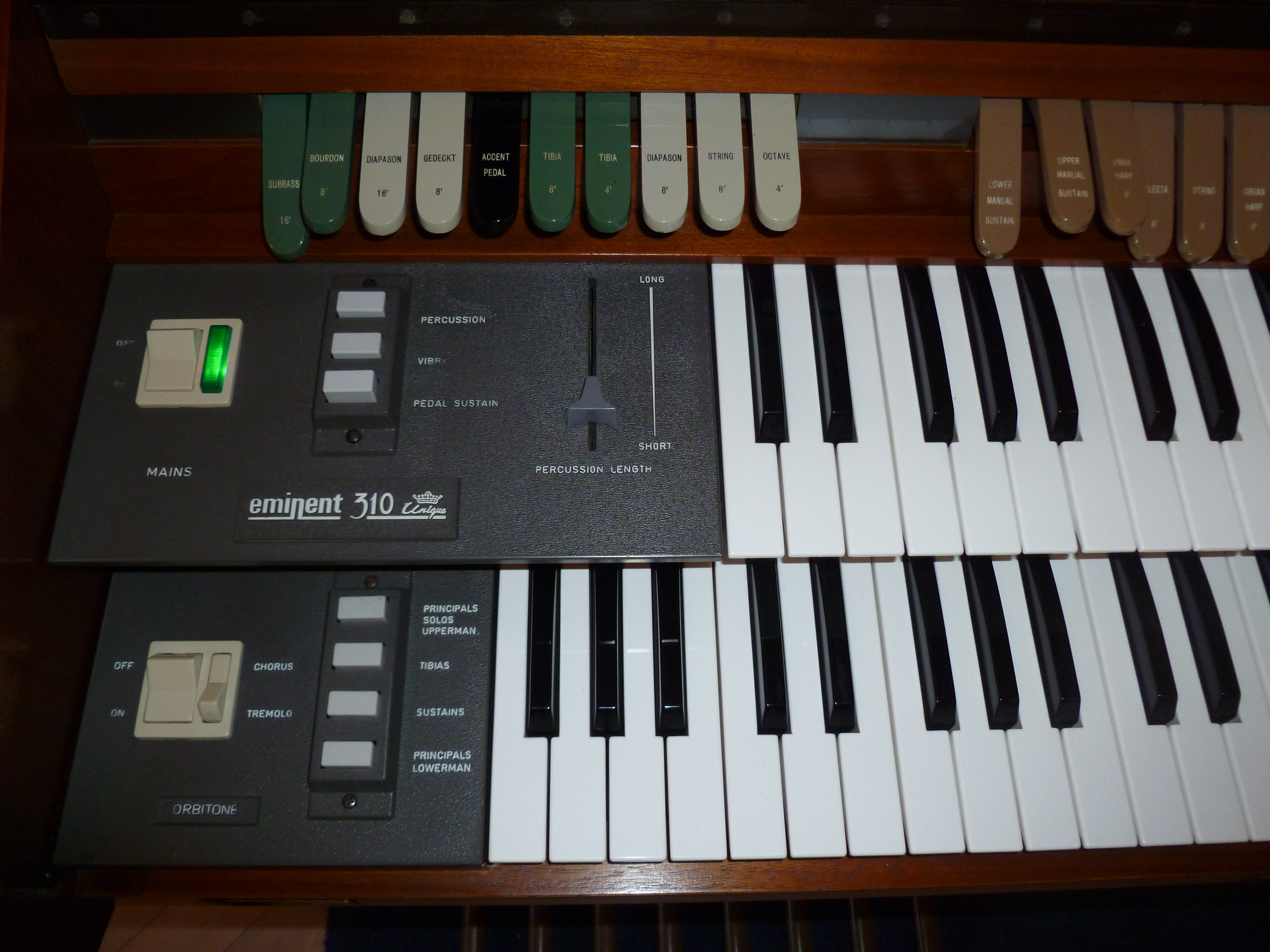 Left Panels and Manuals of the dutch 1970s and 1980s Eminent 310 Unique electrical synthesizer organ.